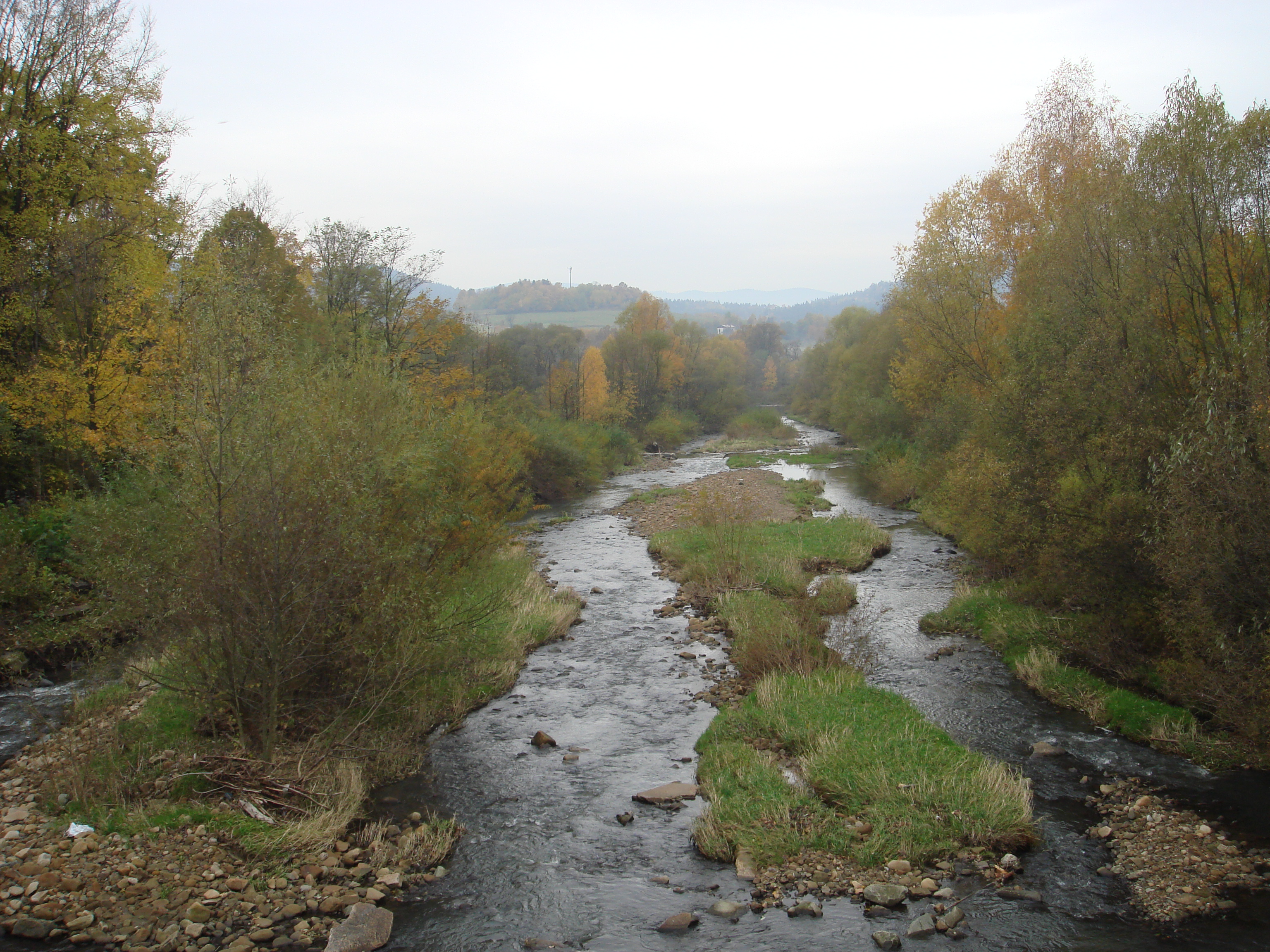 View of the Olza (Olše) river from a bridge connecting Bukovec and Písek (Moravian-Silesian Region, Czech Republic).